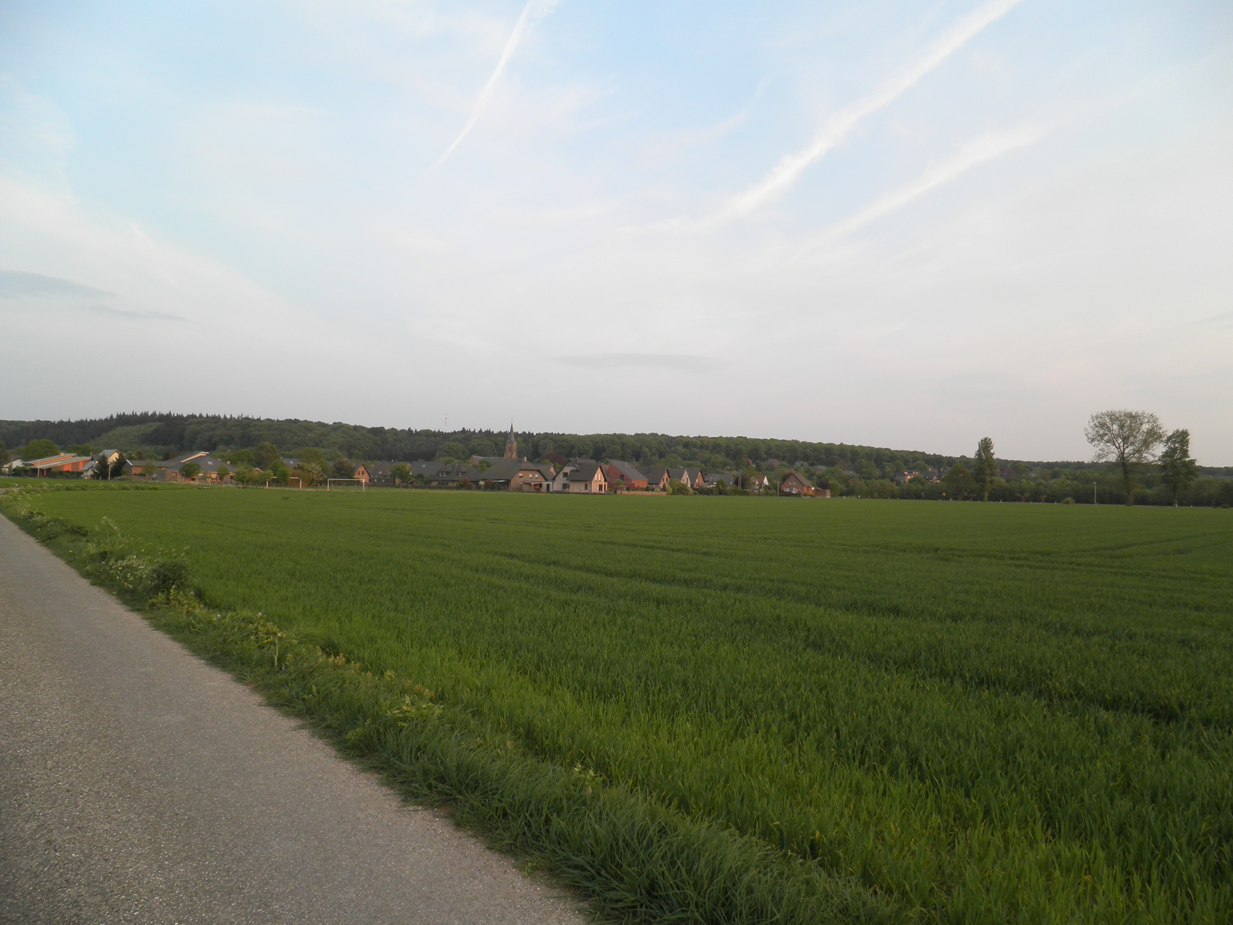 Papenfeld - Kleve-Donsbrüggen, Germany